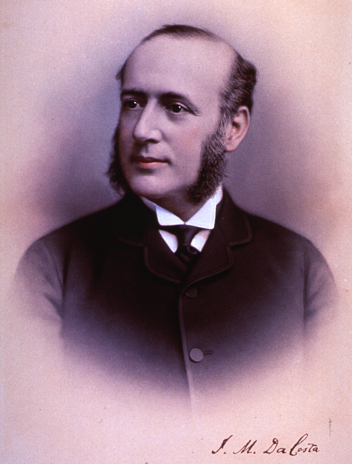 Jacob Mendes Da Costa